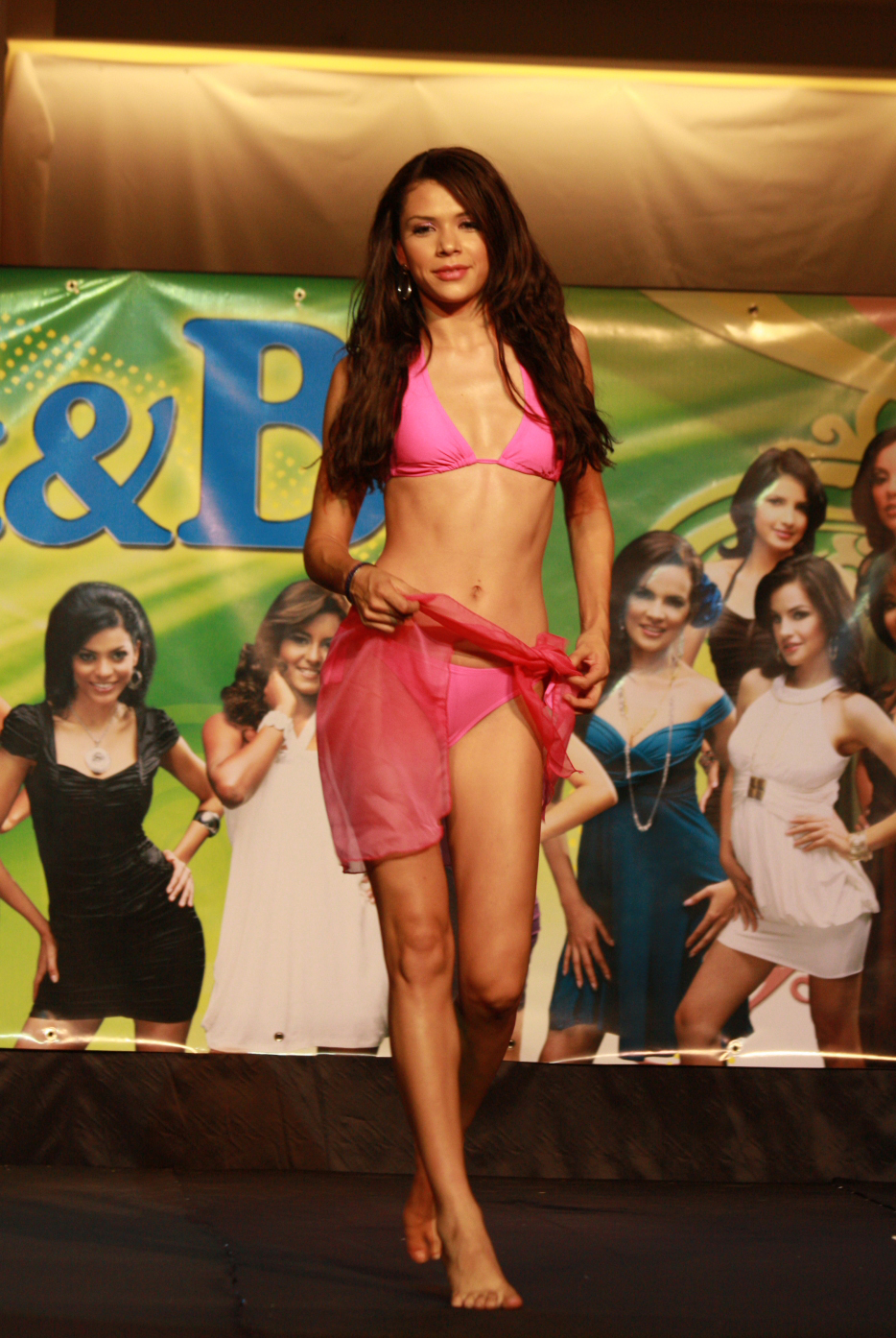 Indiana Sanchez, Miss Nicaragua 2009